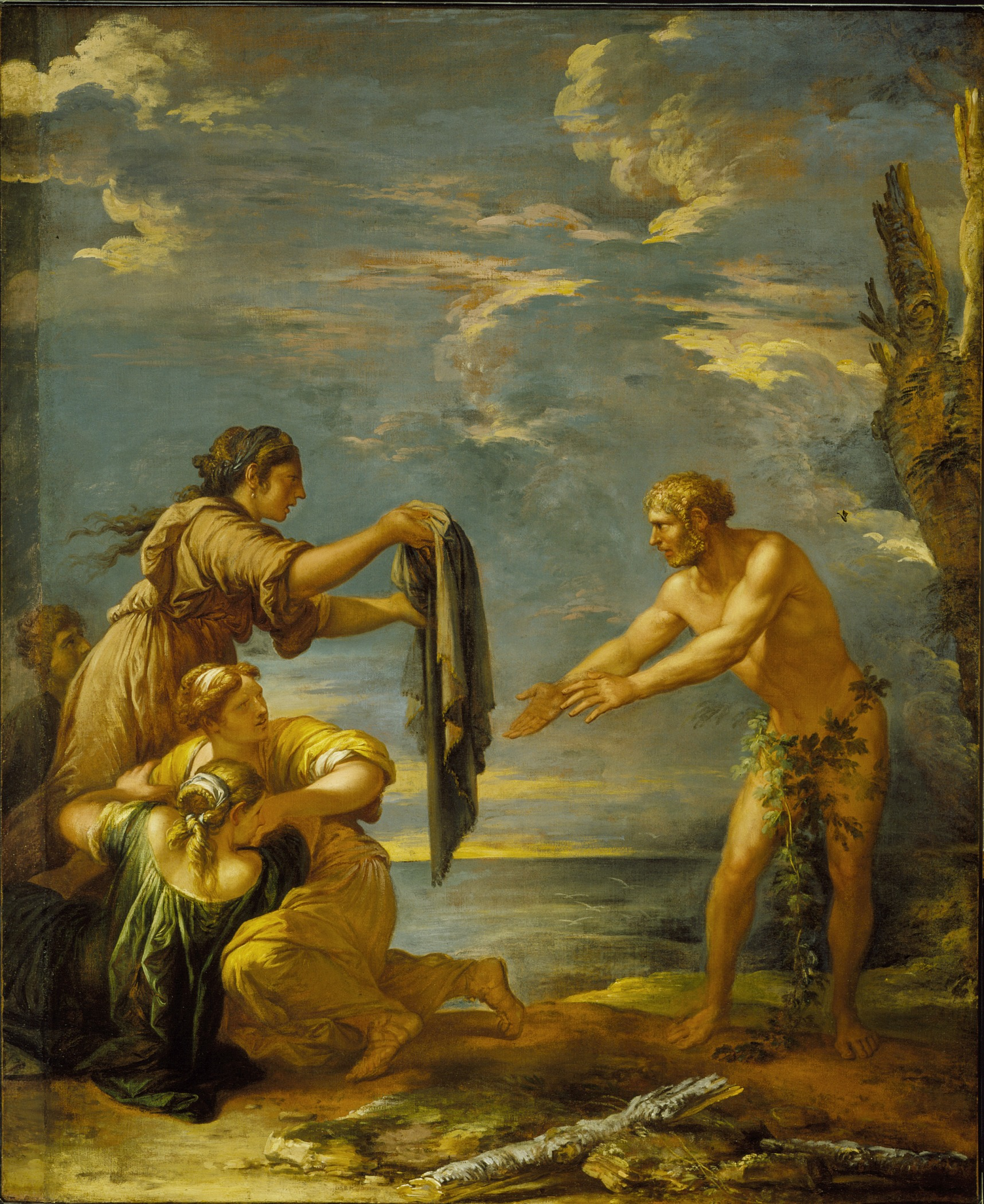 Italy, circa 1655. Painting. Oil on canvas. Salvator Rosa (Italy, Naples, 1615-1673) and studio. William Randolph Hearst Collection (49.17.4). European Painting